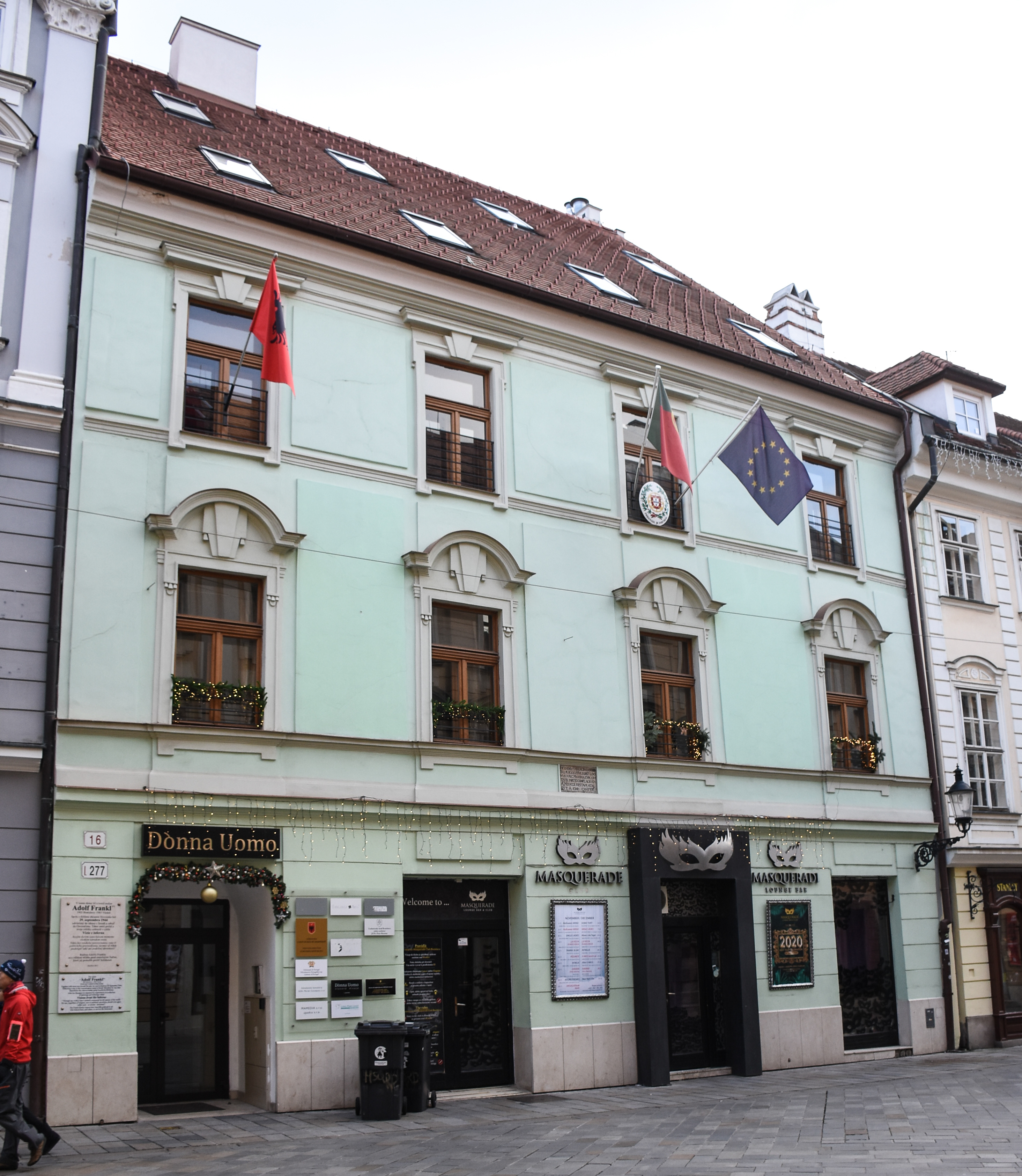 Veleposlaništvo Albanije in Portugalske na Slovaškem